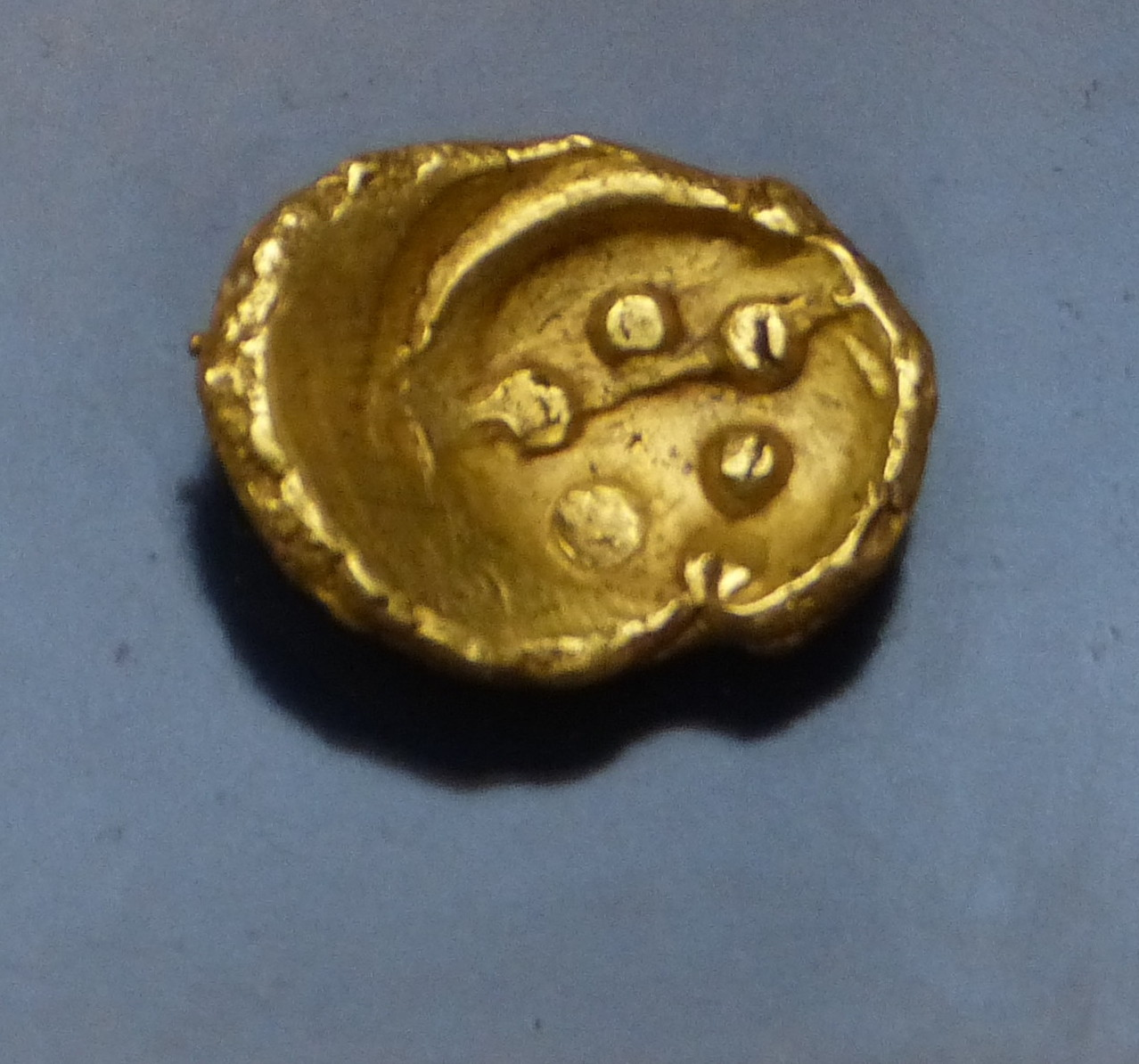 Straubing ( Lower Bavaria ). Gäubodenmuseum: Celtic coin ( Regenbogenschüsselchen ), from Geltofing ( Aiterhofen ).